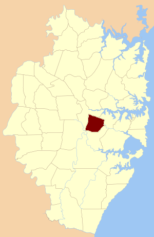 original location of the parish within Cumberland County, New South Wales (Sydney area)